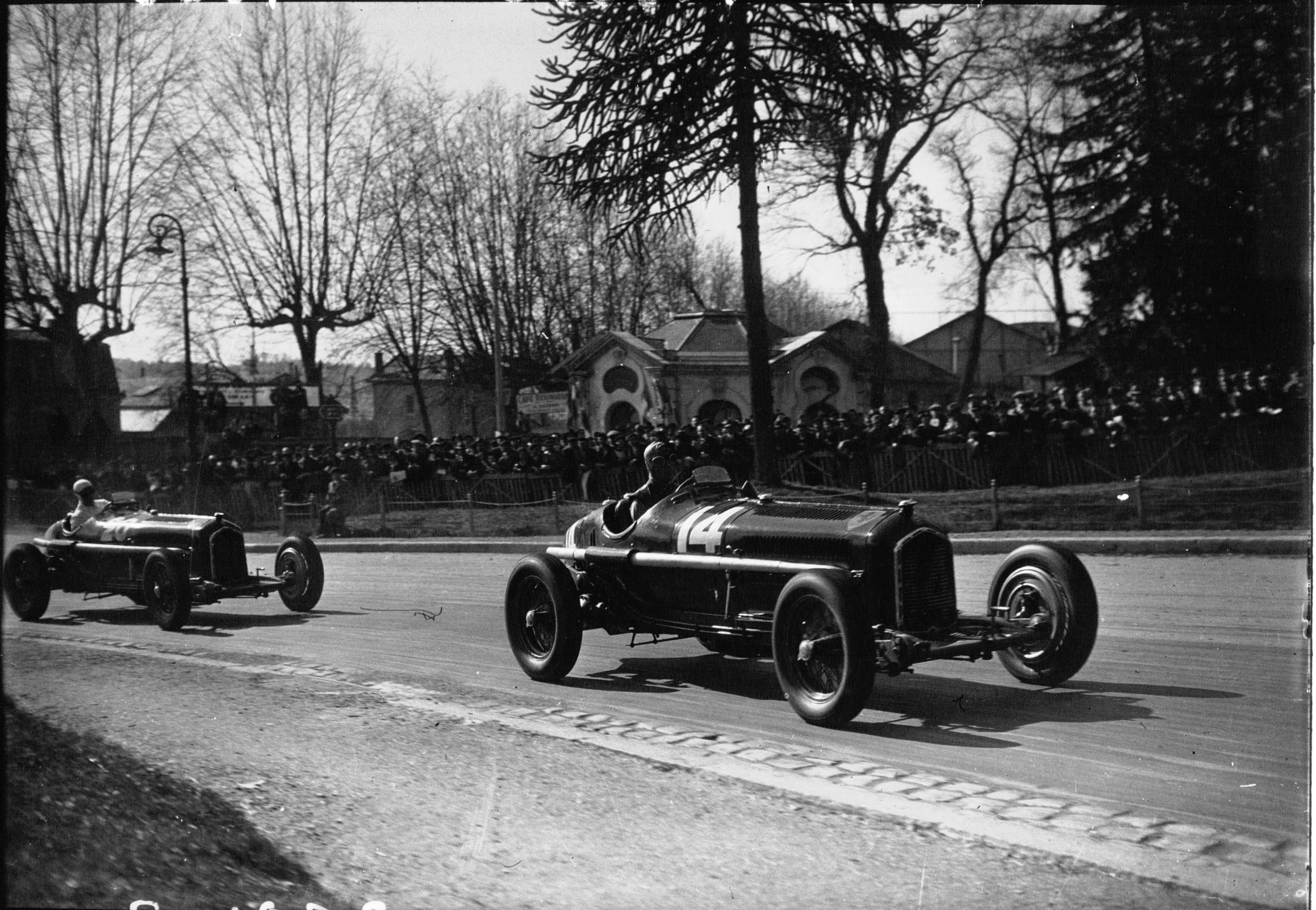 René Dreyfus (#20) and Tazio Nuvolari (#14) at the 1935 Grand Prix de Pau